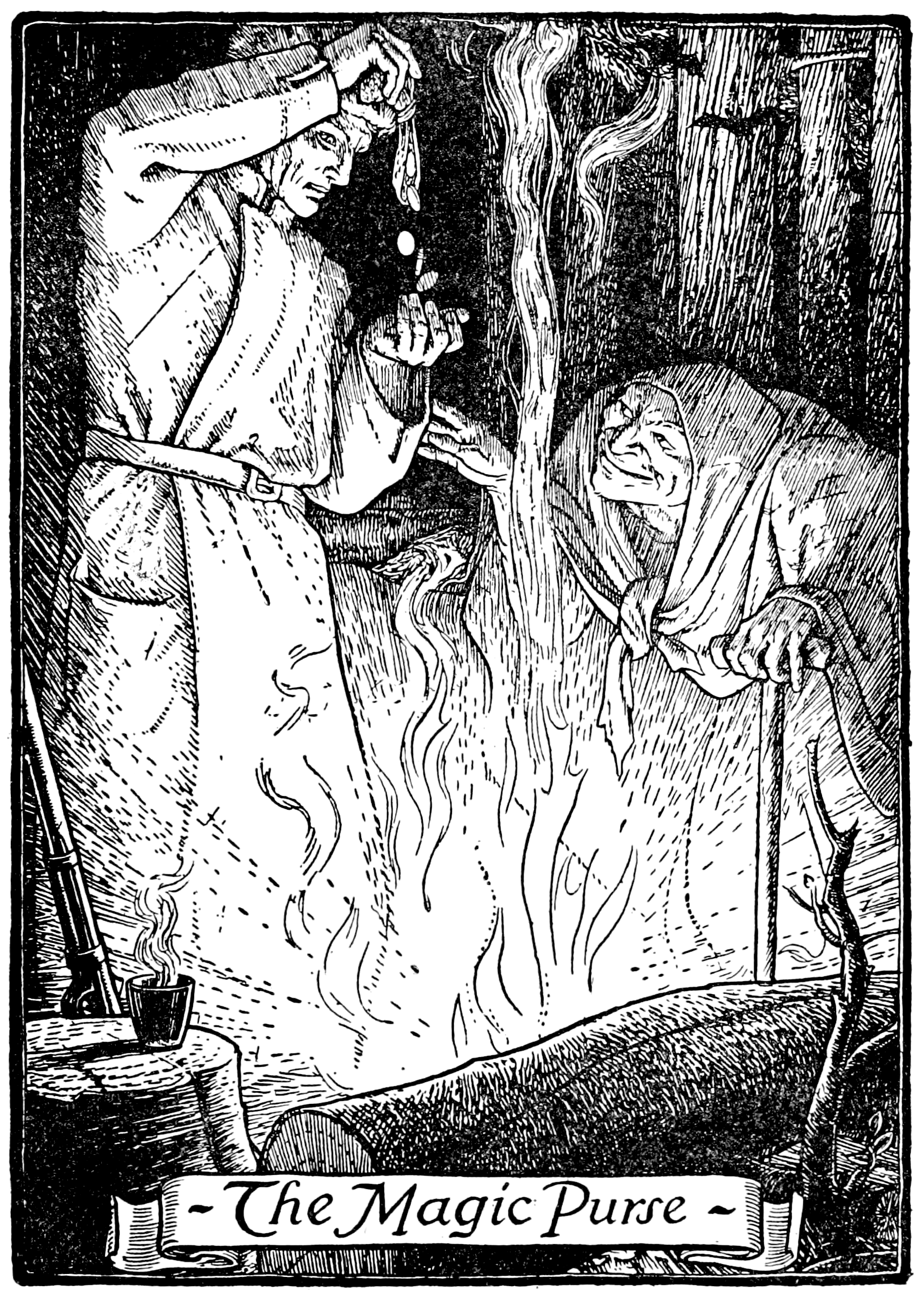 Illustration from a book of fairy tales from Europe, translated into english